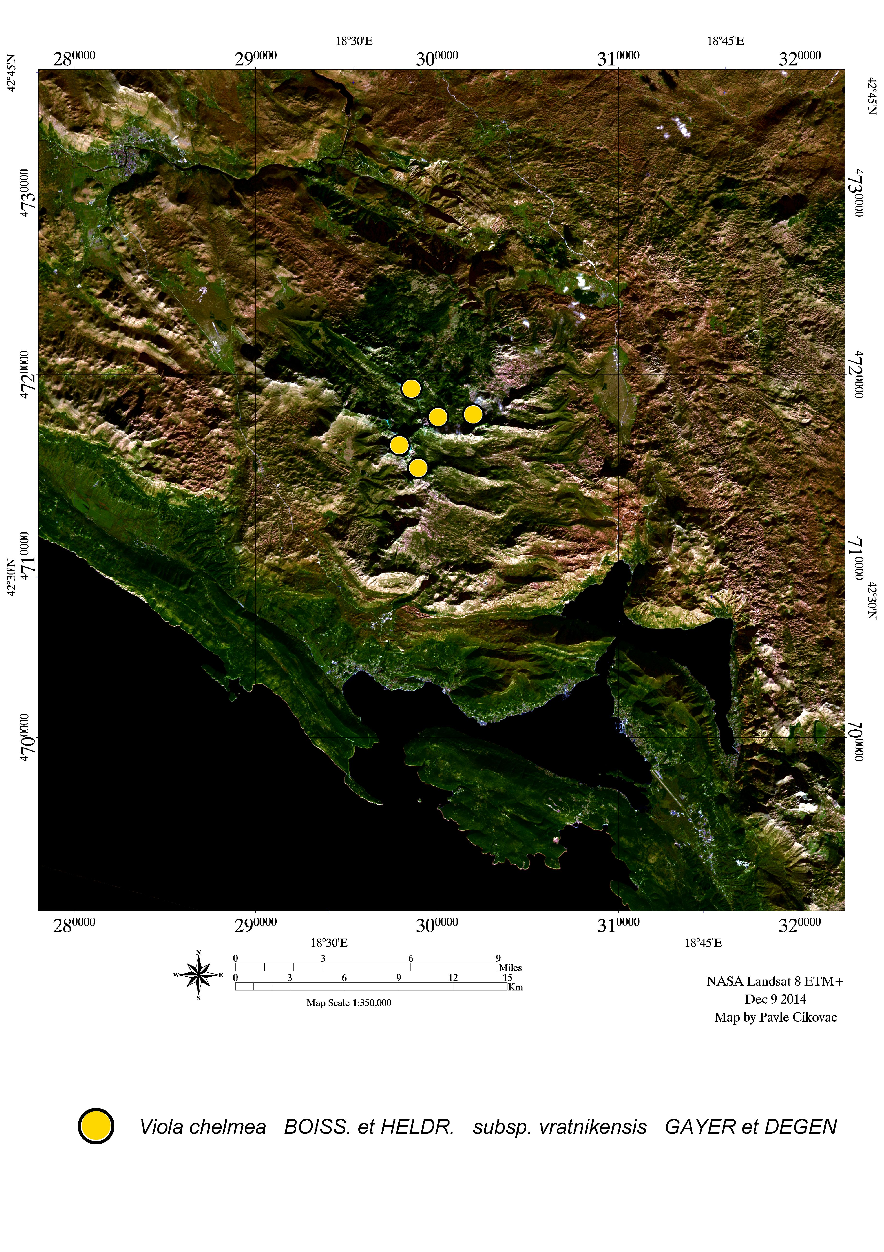 Viola chelmea distributional map for ssp. chelmea on the subadriatic Mt Orjen (Montenegro)